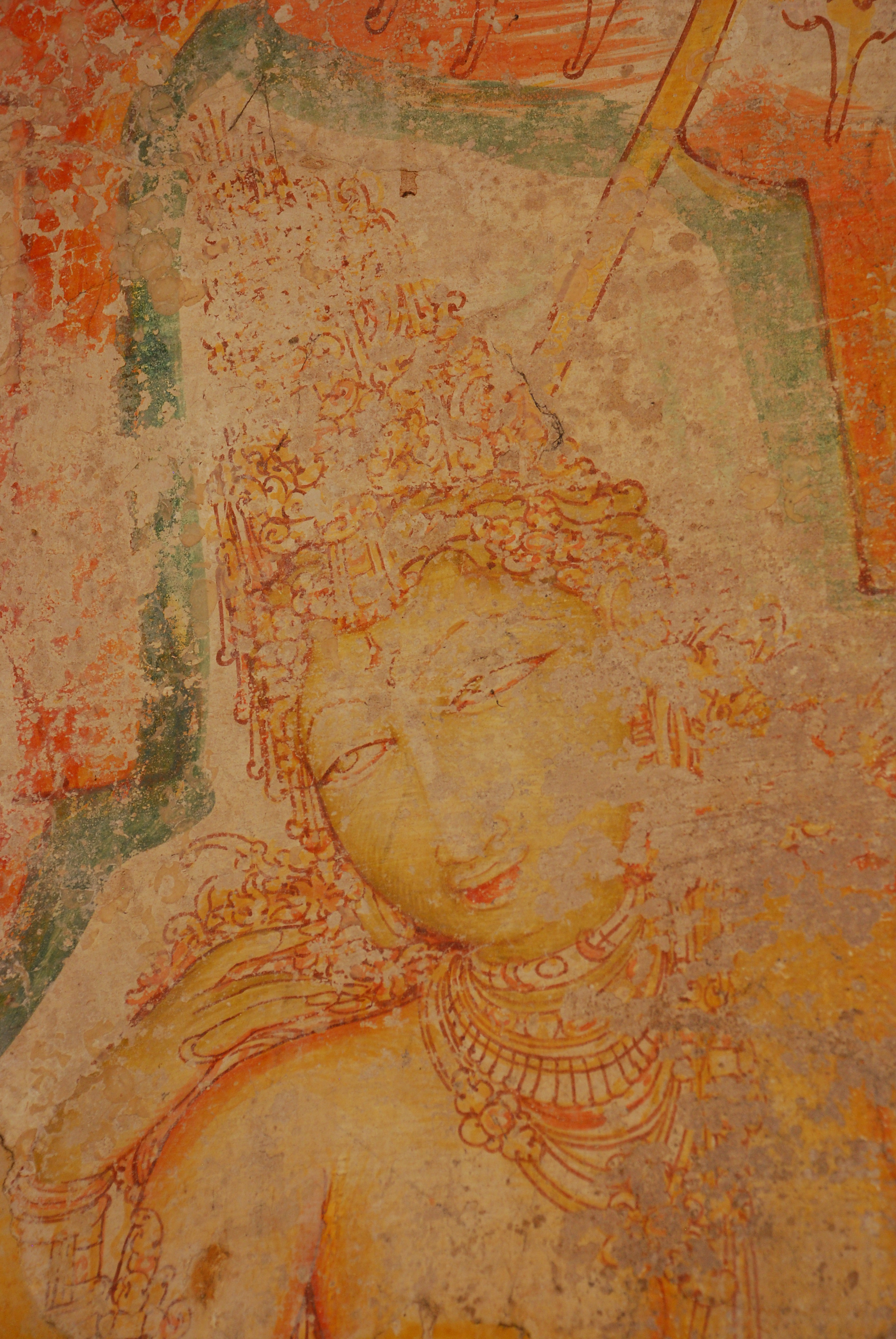 Small fragment of murals on the wall remaining in Panamalai